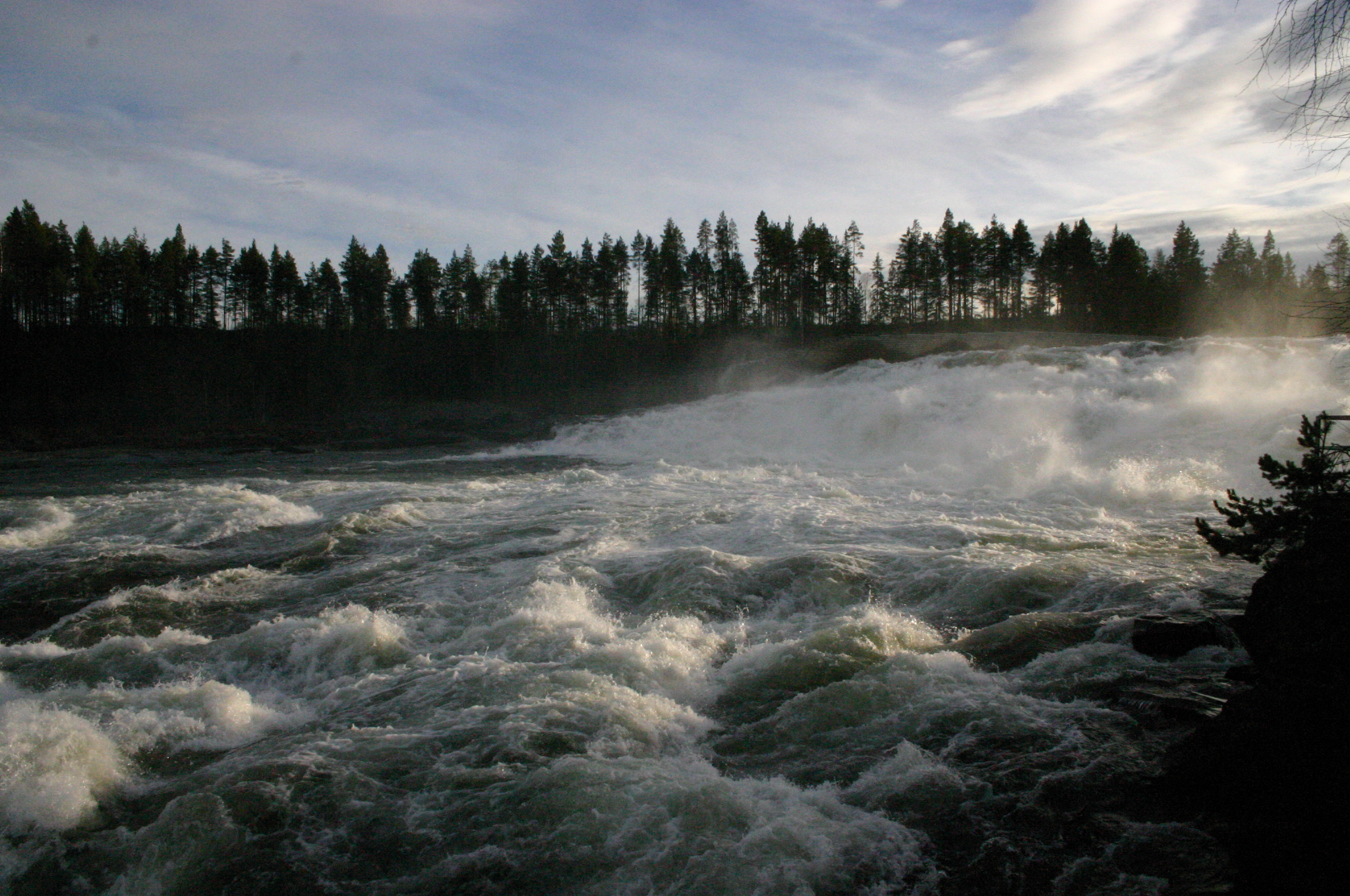 Description: Storforsen rapids near Vidsel, Älvsbyn kommun, Norrbotten, Sweden. source: created on 17.10.2005 by Stephan Herz with Canon EOS 300D